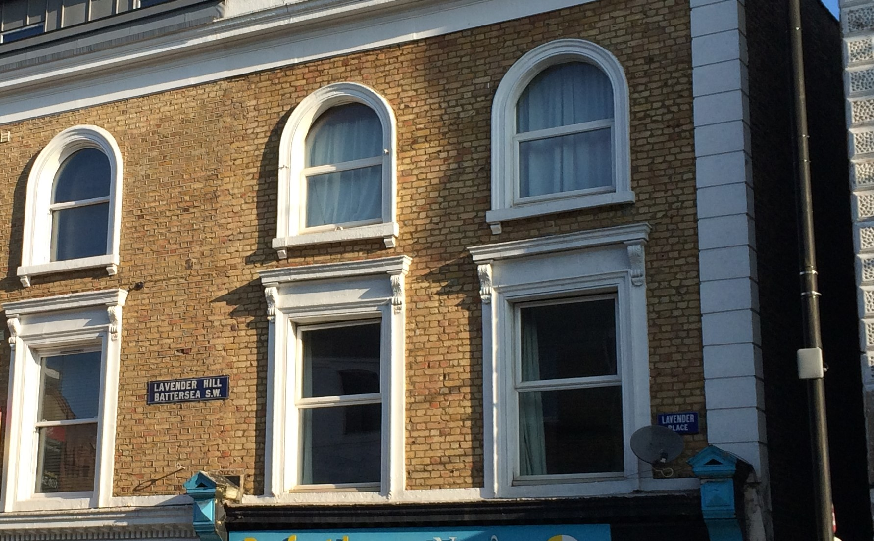 Building at Lavender Hill in Battersea showing surviving street name signs for both Lavender Hill and the former street of Lavender Place